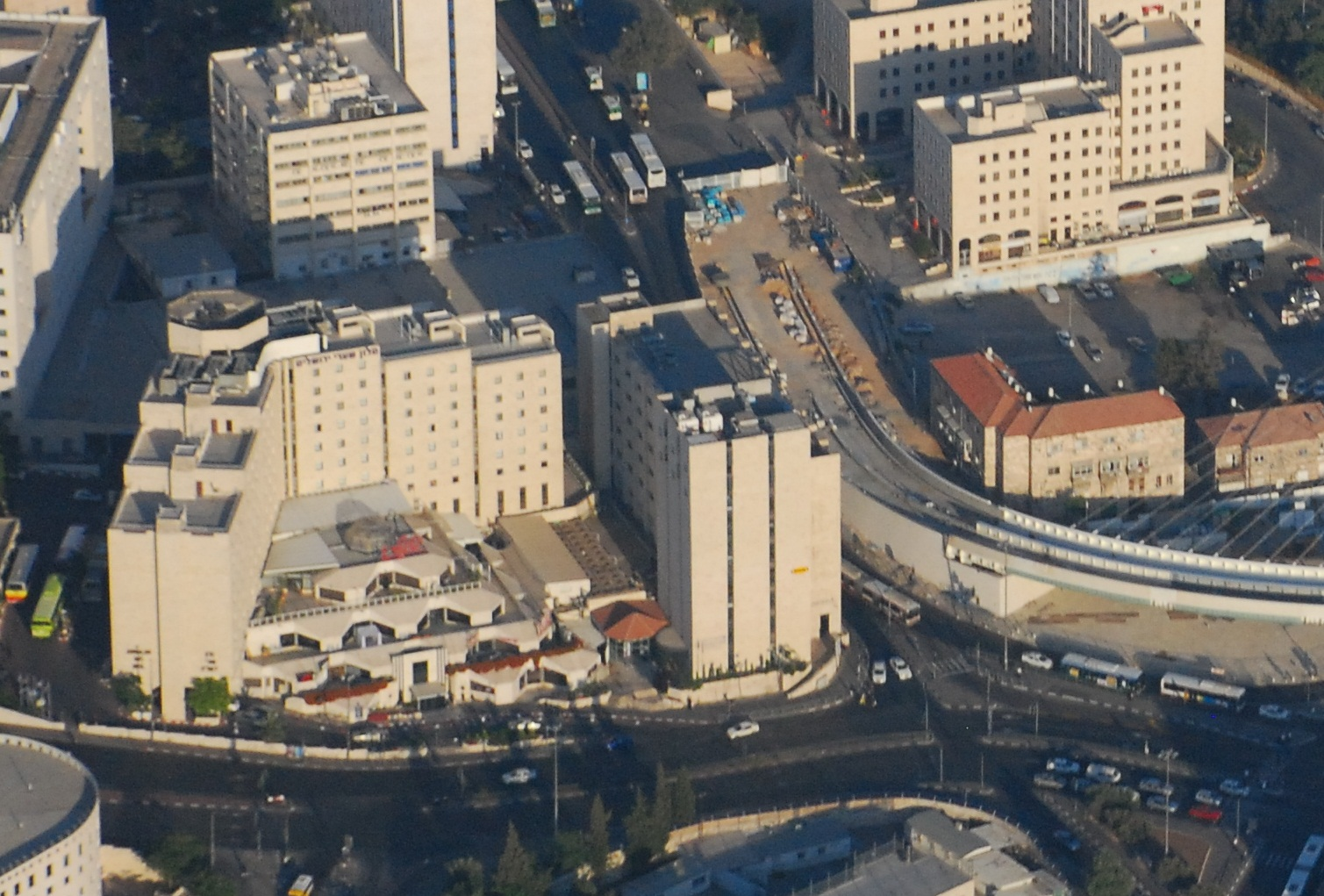 Picture of the Jerusalem Gate Hotel from the Air